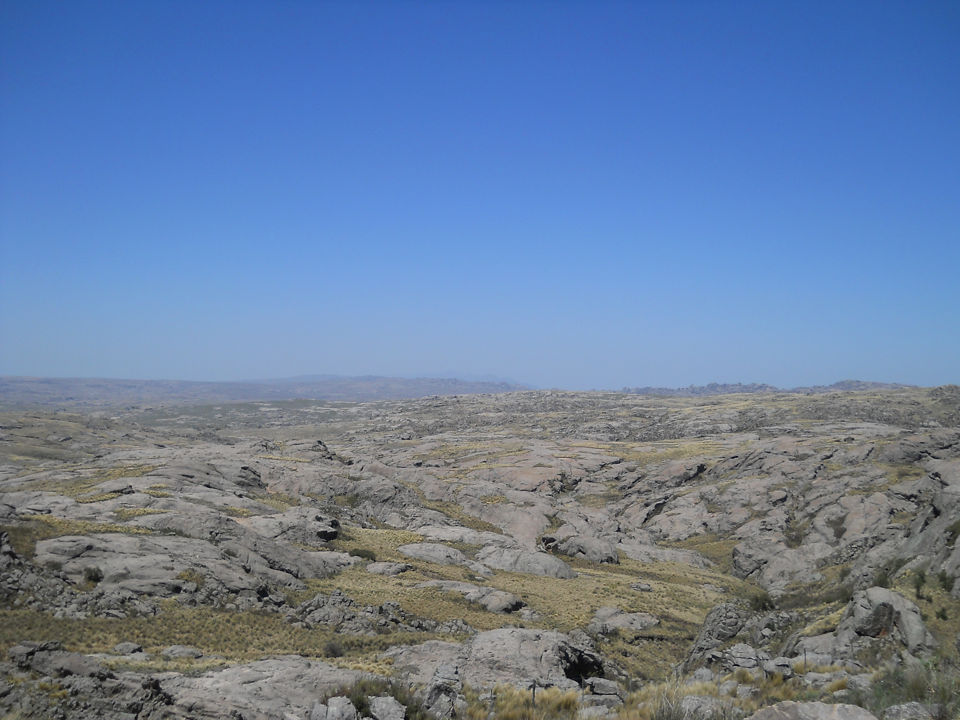 Faint in the distance, Champaquí mount.